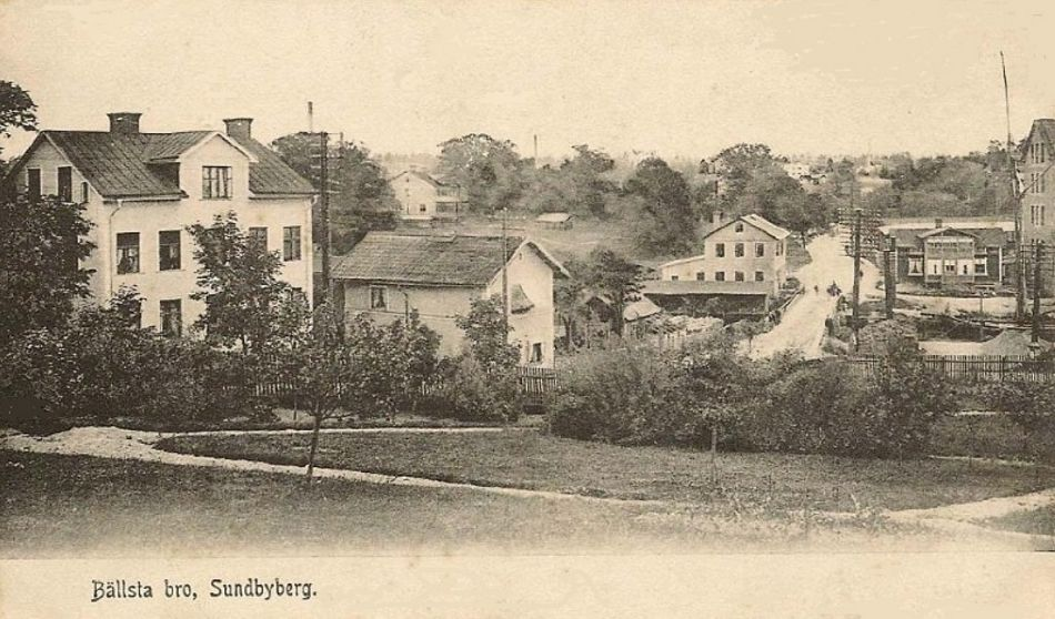 Från Mariehäll mot Bällsta bro och Sundbyberg. Ca 1905. På andra sidan bron: huset till vänster var en takrosettfabrik. Huset till höger var skulptören Carl Fagerbergs hem Sjöstugan. Vykort.